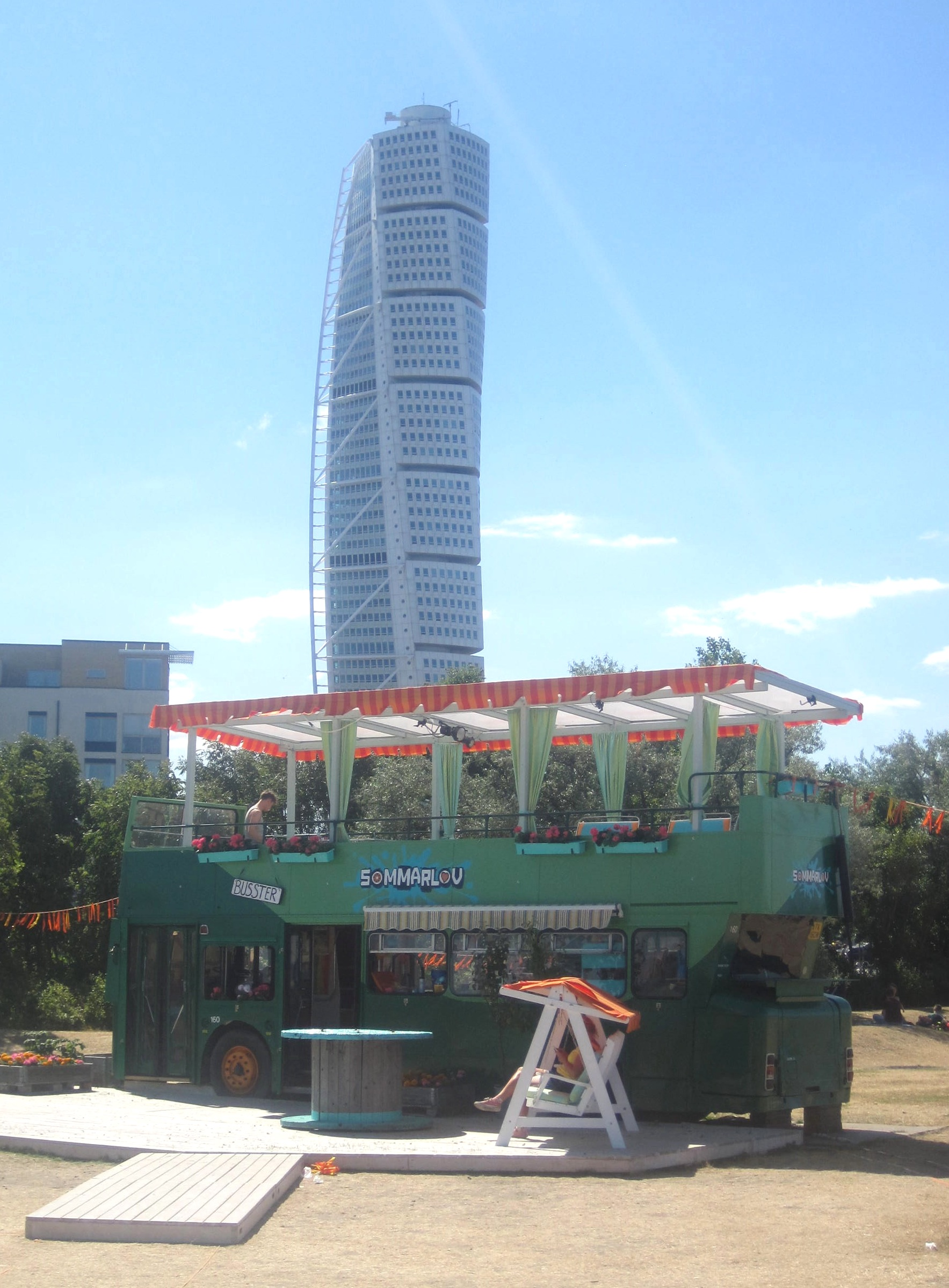 The bus from which the 2013 edition of the Swedish chilren's television show Sommarlov was broadcast in Malmö. In the background: Turning Torso.